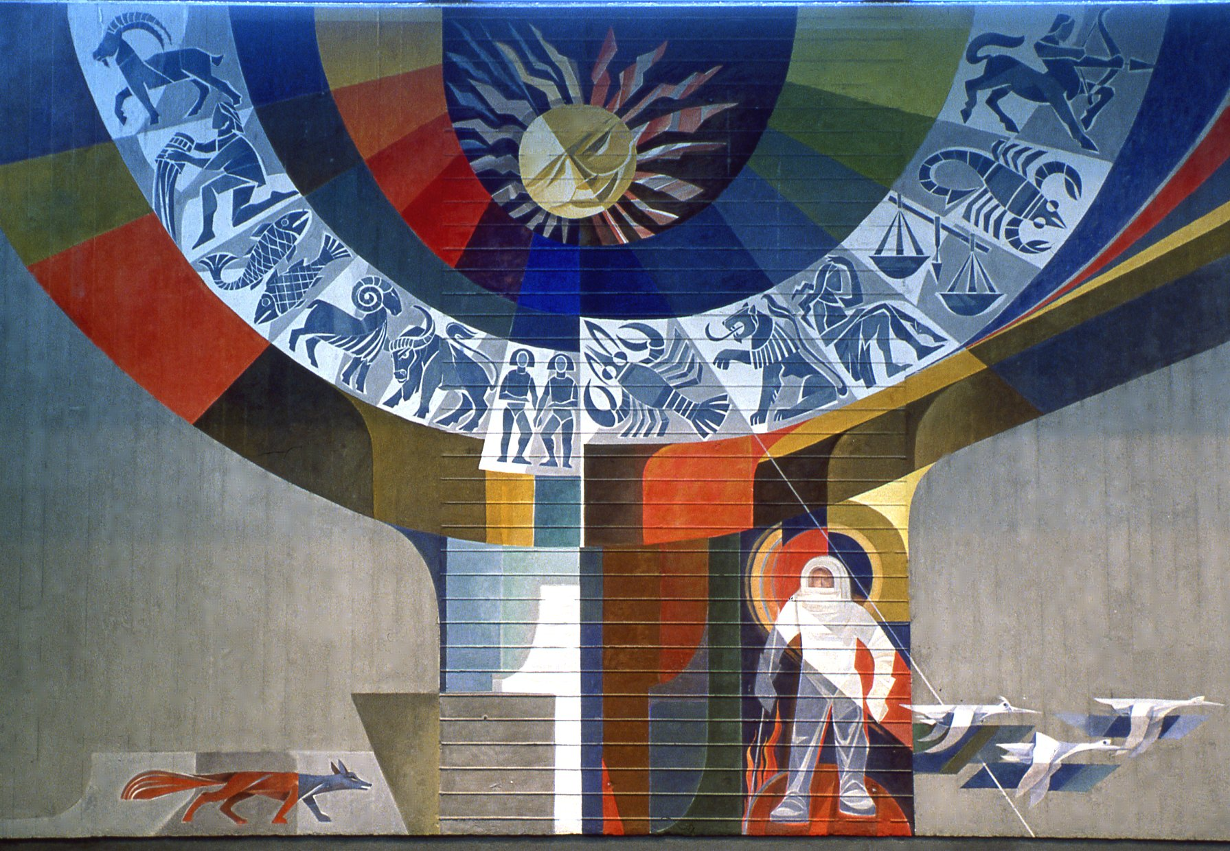 wallpainting by Eichenau artist Michael Lutz in Starzelbachschule Eichenau /Germany